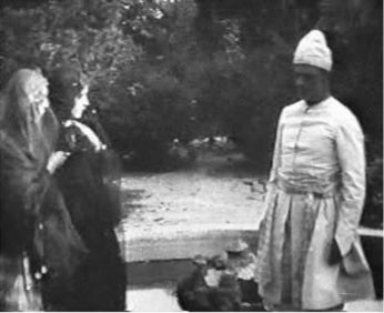 Cadre from the first Azerbaijani Soviet film "Maiden Tower Legend"